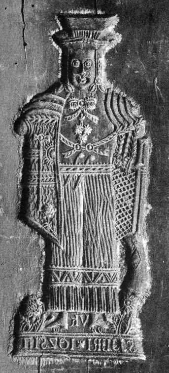 The Hungarian outlaw Jóska Sobri represented on a gingerbread mold (Pápa, 1840s)